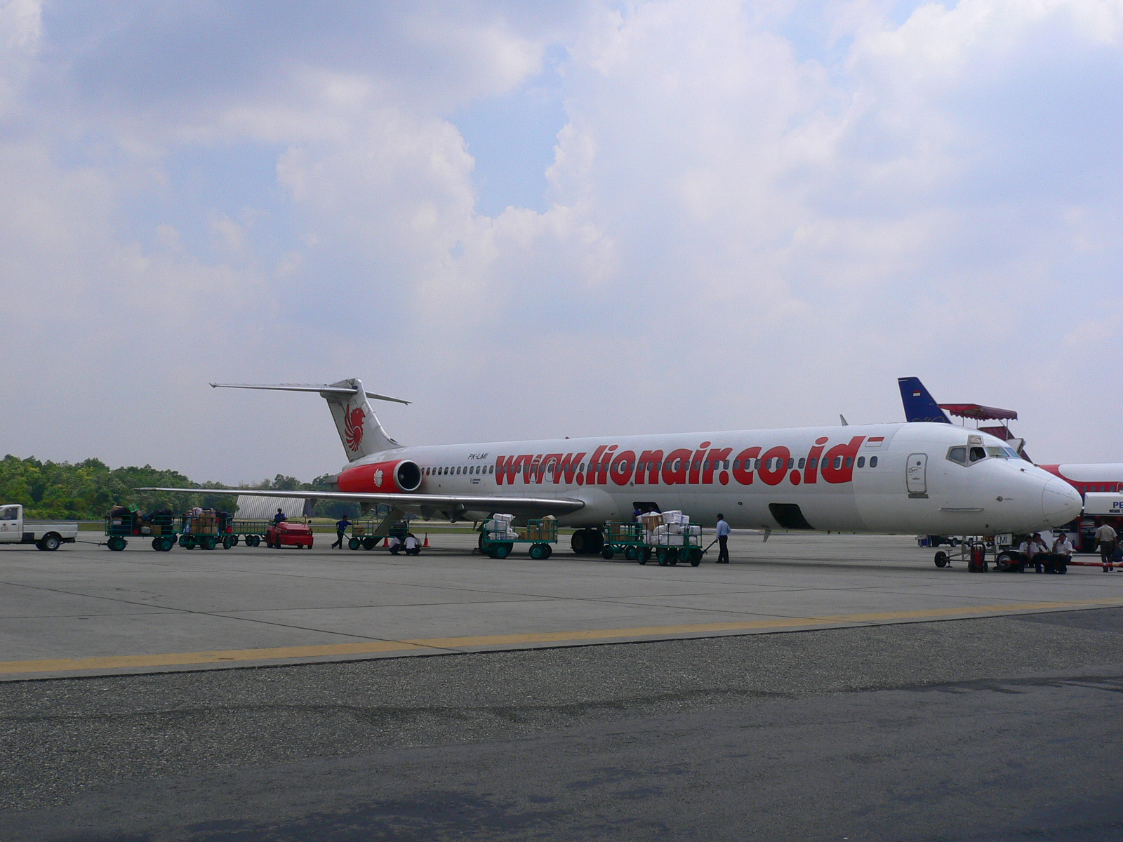 A MD-82 of Lion Air, PK-LMI. Location is Pekanbaru's airport (SSQ II). Photo taken before I board this plane.